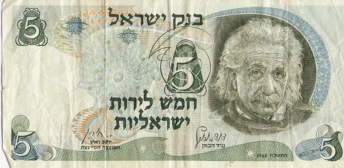 5 Israeli Lirot banknote with the portrait of Albert Einstein - 1968.